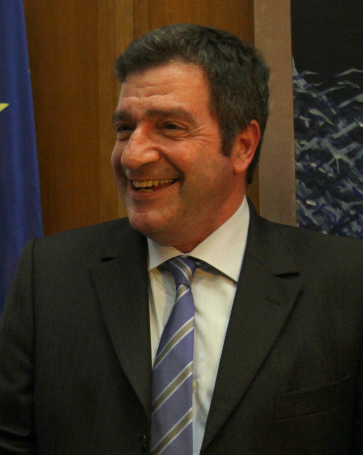 George Kaminis, Mayor of Athens